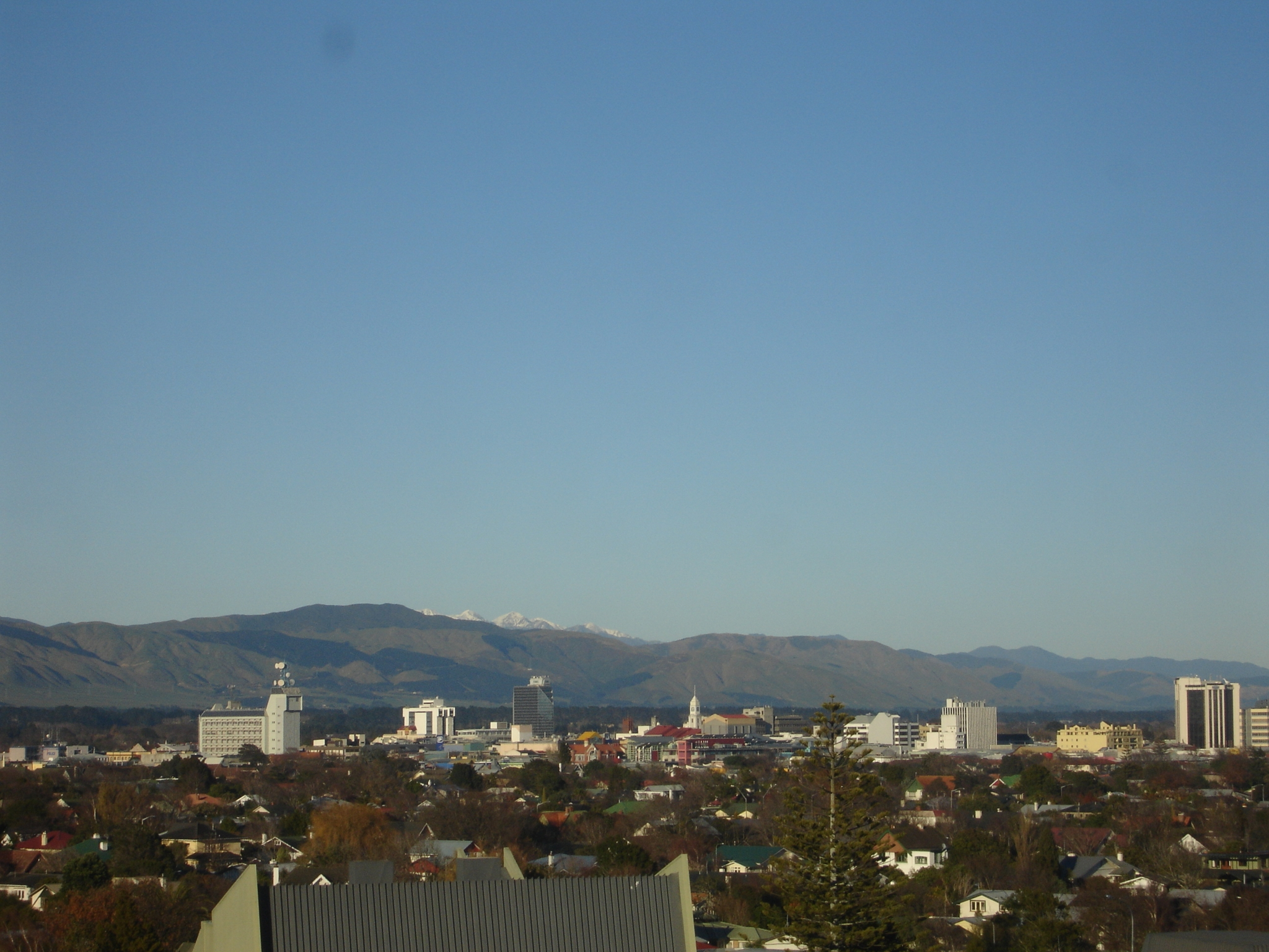 Palmerston North, New Zealand; city centre from the fourth floor of Palmerston North Hospital.